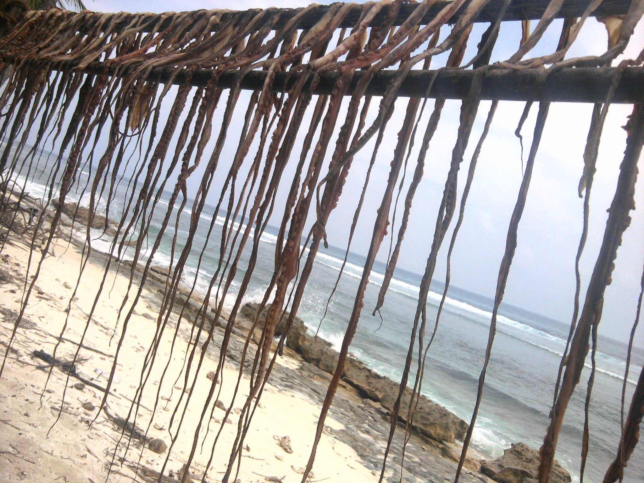 Kadmat Island, Lakshadweep. The islanders are commonly using octopus as good meal. This is the way to dried up the octopus and keep the dried thing for the rainy days...